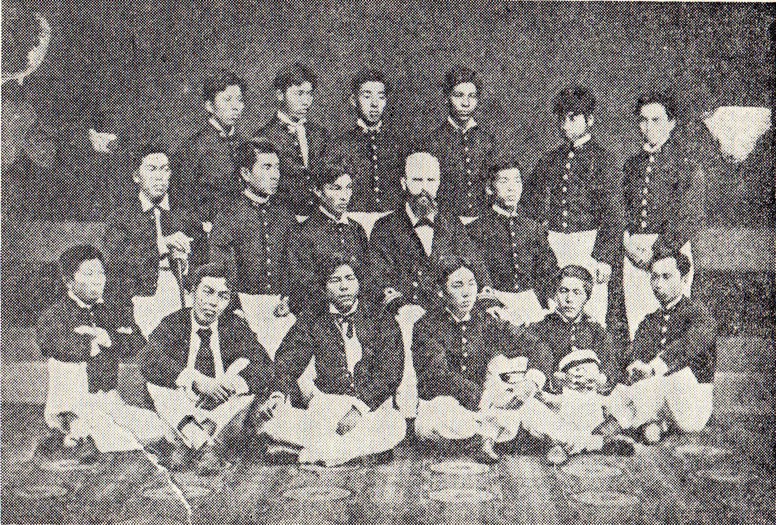 Japanese naval academy 6th graduates, Seated first from left is 郡司成忠